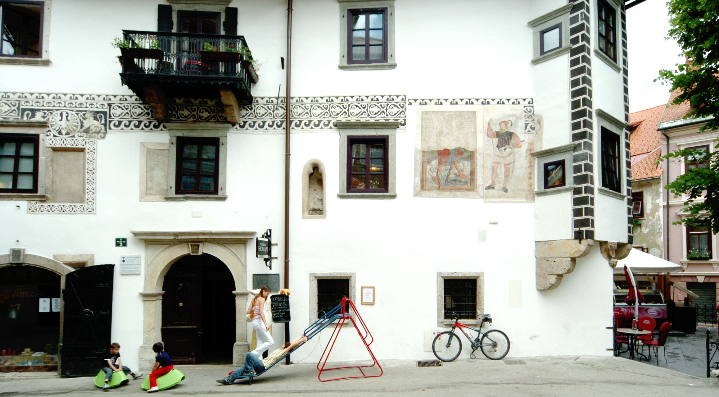 Homan House, the 16th-century house at the Town Square in Škofja Loka, northwestern Slovenia.